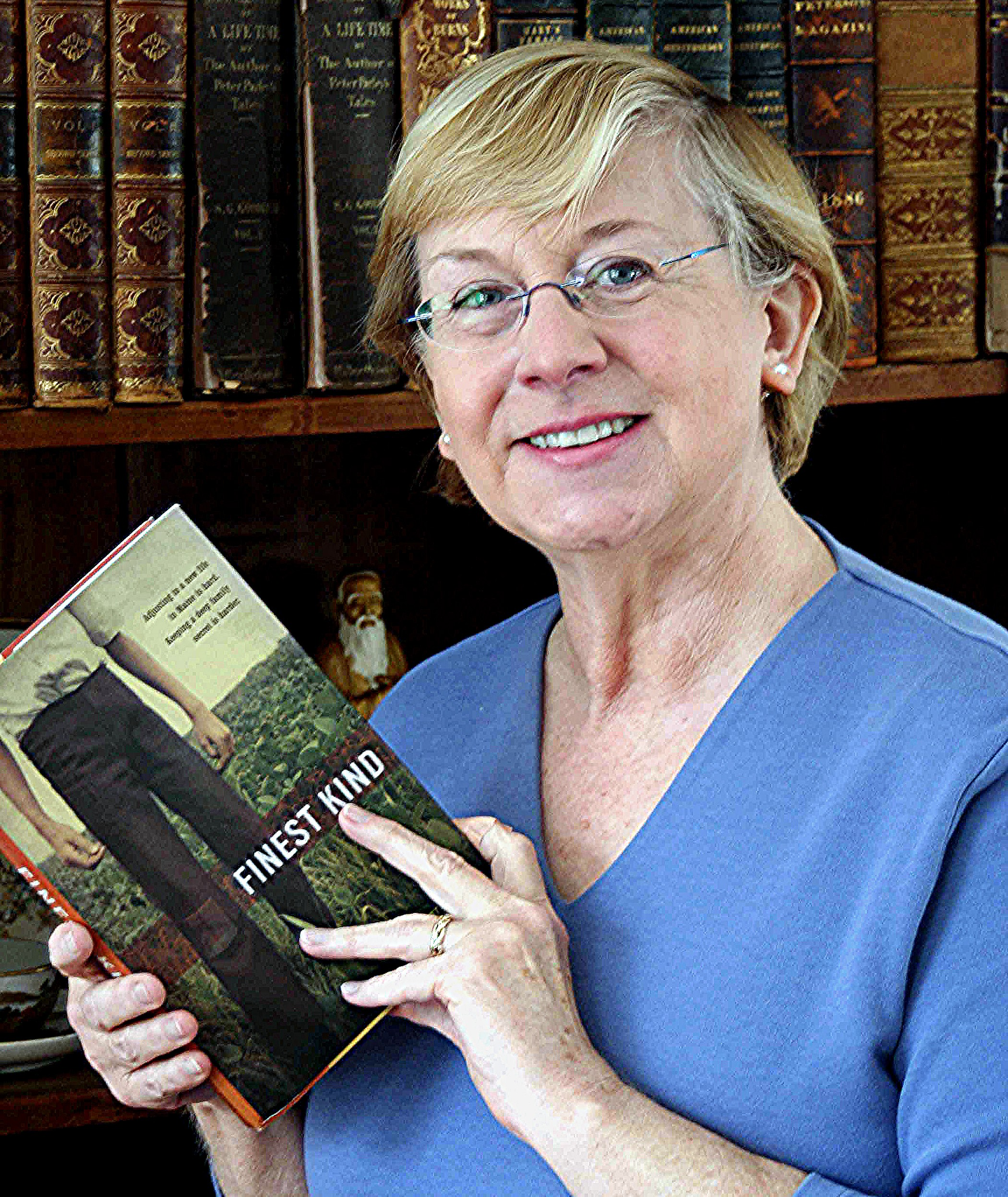 Lea Wait